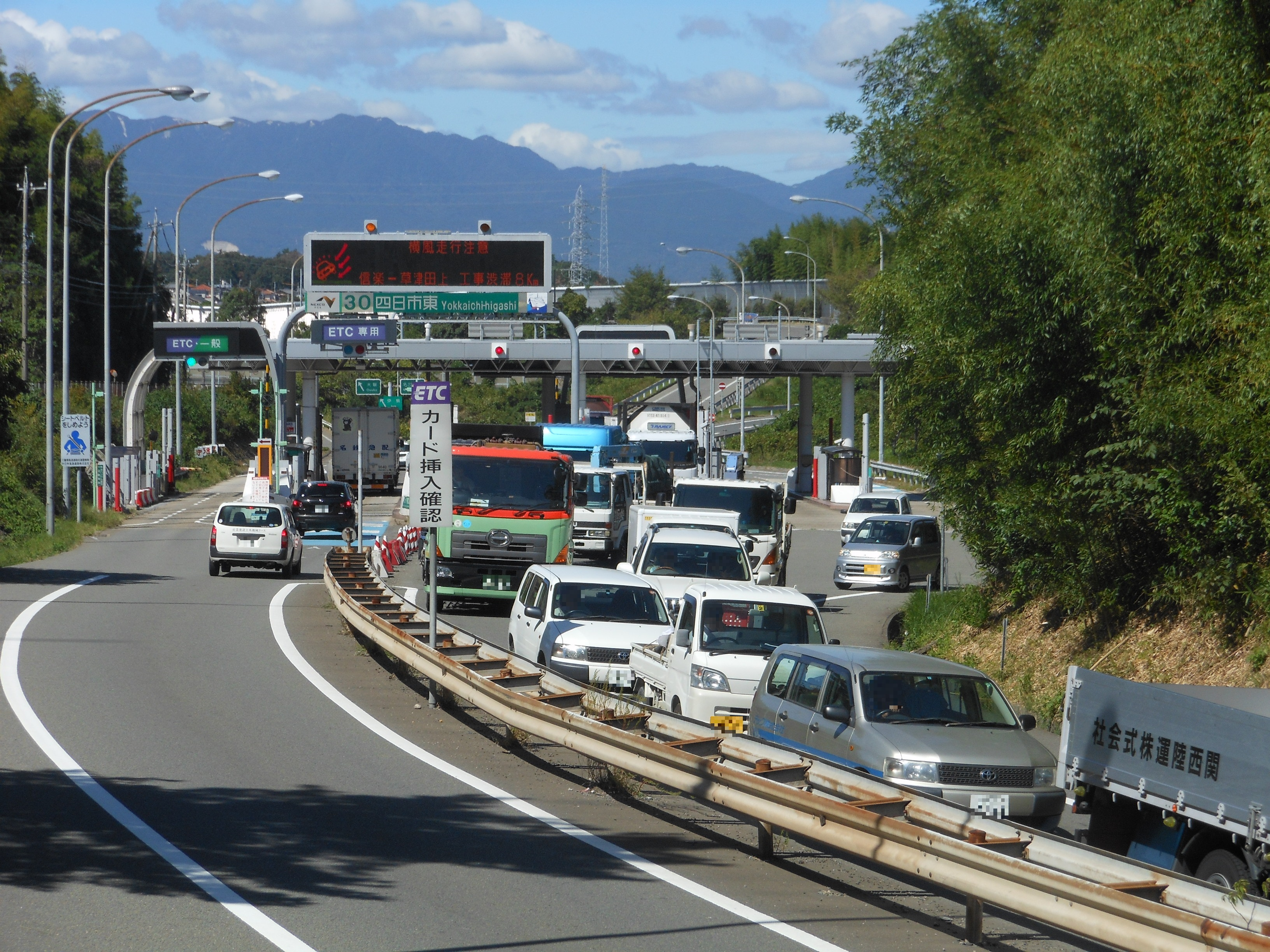 This is the Yokkaichi-higashi interchange, Higashimeihan Experssway in Yokkaichi, Mie, Japan.